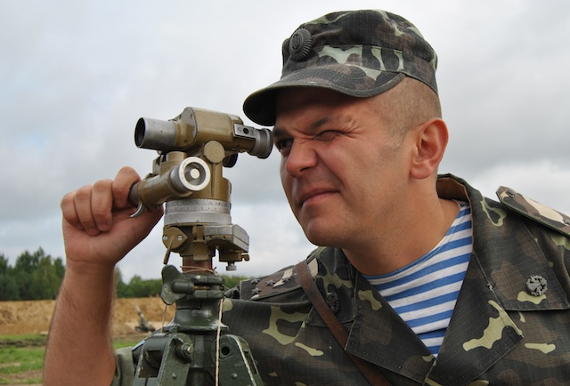 A Ukrainian soldier looks through an optic during a field training exercise at Rapid Trident 2012 in Yavoriv, Ukraine, July 17. Rapid Trident is a multinational exercise held at the International Peacekeeping and Security Center in Yavoriv, Ukraine. It is designed to promote regional stability and security, strengthen international military partnering and foster trust while improving interoperability between participating nations. (Photo by Lt. Col. Taras Gren, Ukrainian Army Public Affairs)